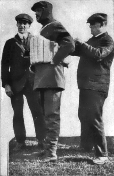 1910 photograph of British aviator Charles Stewart Rolls.